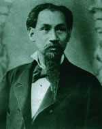 Ignacio Ramirez, El Nigromante, known as the Voltaire of Mexico